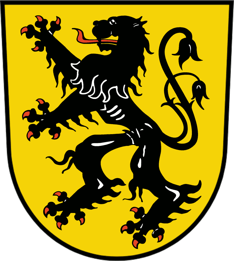 Coat of arms of the German city of Ortrand.